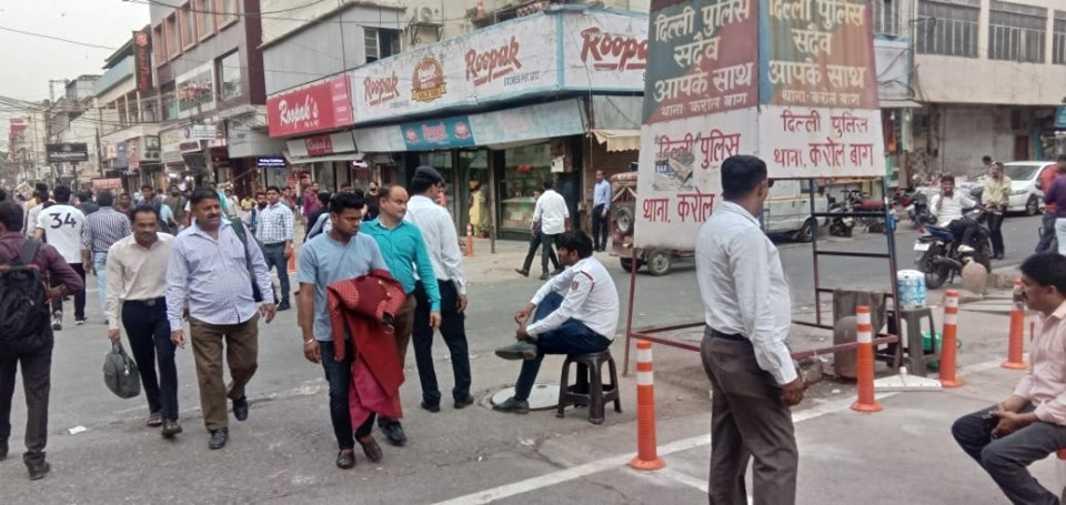 Karol Bagh Market - Revitalized 2019